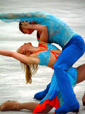 Madison Hubbell and Keiffer Hubbell during their free dance at the 2006 Junior Grand Prix event in The Hague, Netherlands